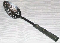 Slotted Spoon